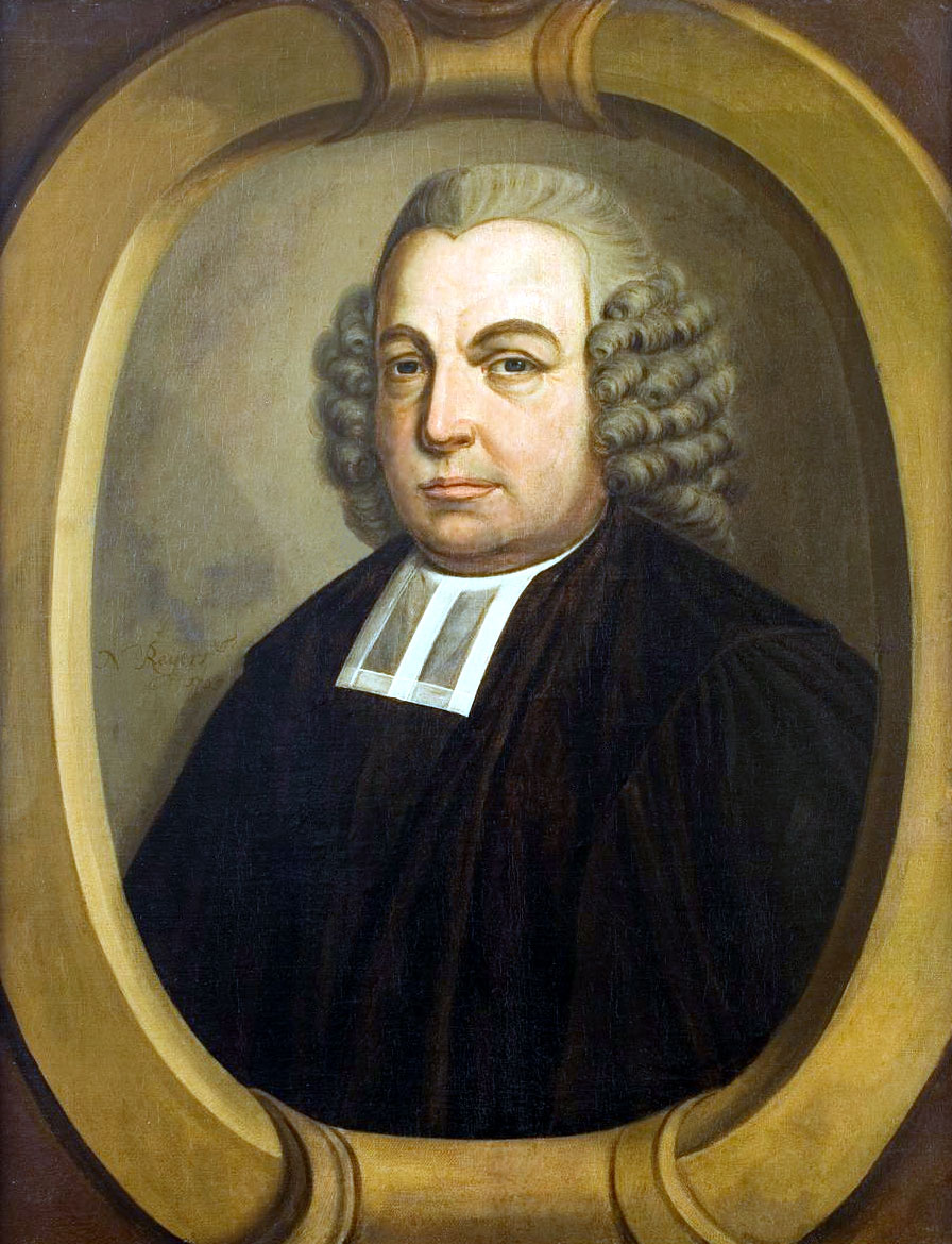 Hermann Scholten (1726-1783) Dutch Reformed theologian